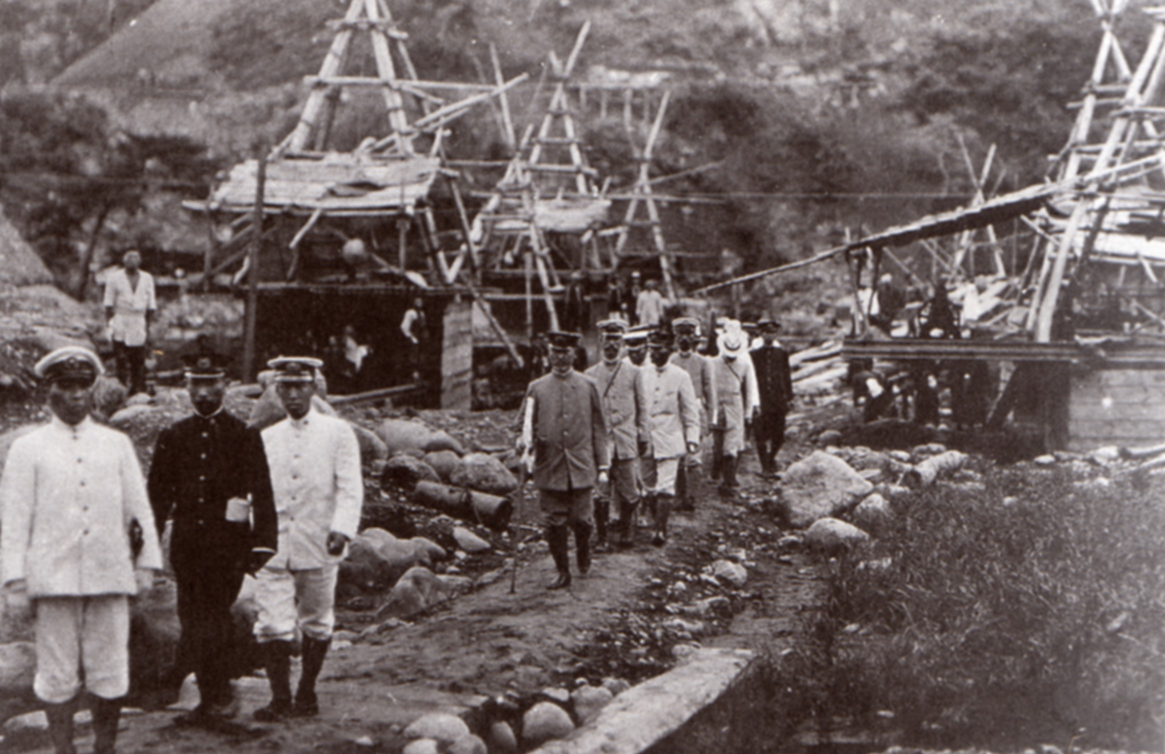 Gotō Shinpei (4th person from left) was visiting the construction site of Amarube viaduct.